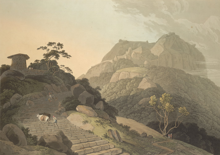 Artist and engraver: Daniell, Thomas (1749-1840) Medium: Aquatint, coloured Date: 1802 Plate 13 from the third set of Thomas and William Daniell's 'Oriental Scenery.' Virabhadradrug is one of the smaller of the South Indian fortified hills known as 'droogs' or 'drugs' from 'durga', Sanskrit for 'fort,' and is situated in the Baramahal, the hilly district between the Mysore plateau and the plains of Tamil Nadu. As the artists remarked, 'Verapadroog, with respect to its form and situation, is one of the most romantic forts of the Barramah'l. Its sides are very thickly clothed with wood a considerable way up, and the lower part is so surrounded by an impenetrable jungle, that the tygers which are said to be very numerous here, find a secure and undisturbed shelter.' When the Daniells visited it in 1792, the soldiers of Tipu Sultan were in course of evacuating it at the end of the Third Mysore War.